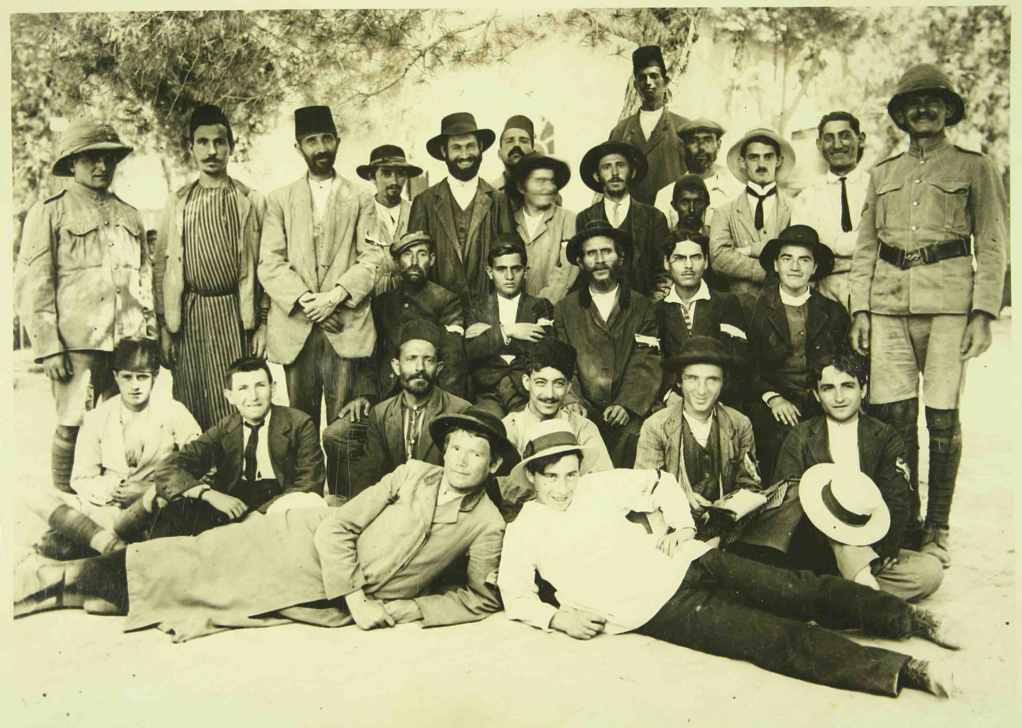 Israeli volunteers British WWI